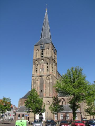 Toren Bovenkerk Kampen, Nederland